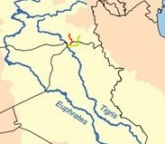 show approximately the position of the Hizel Suyu river (red line) and the Little Khabur river (green line)